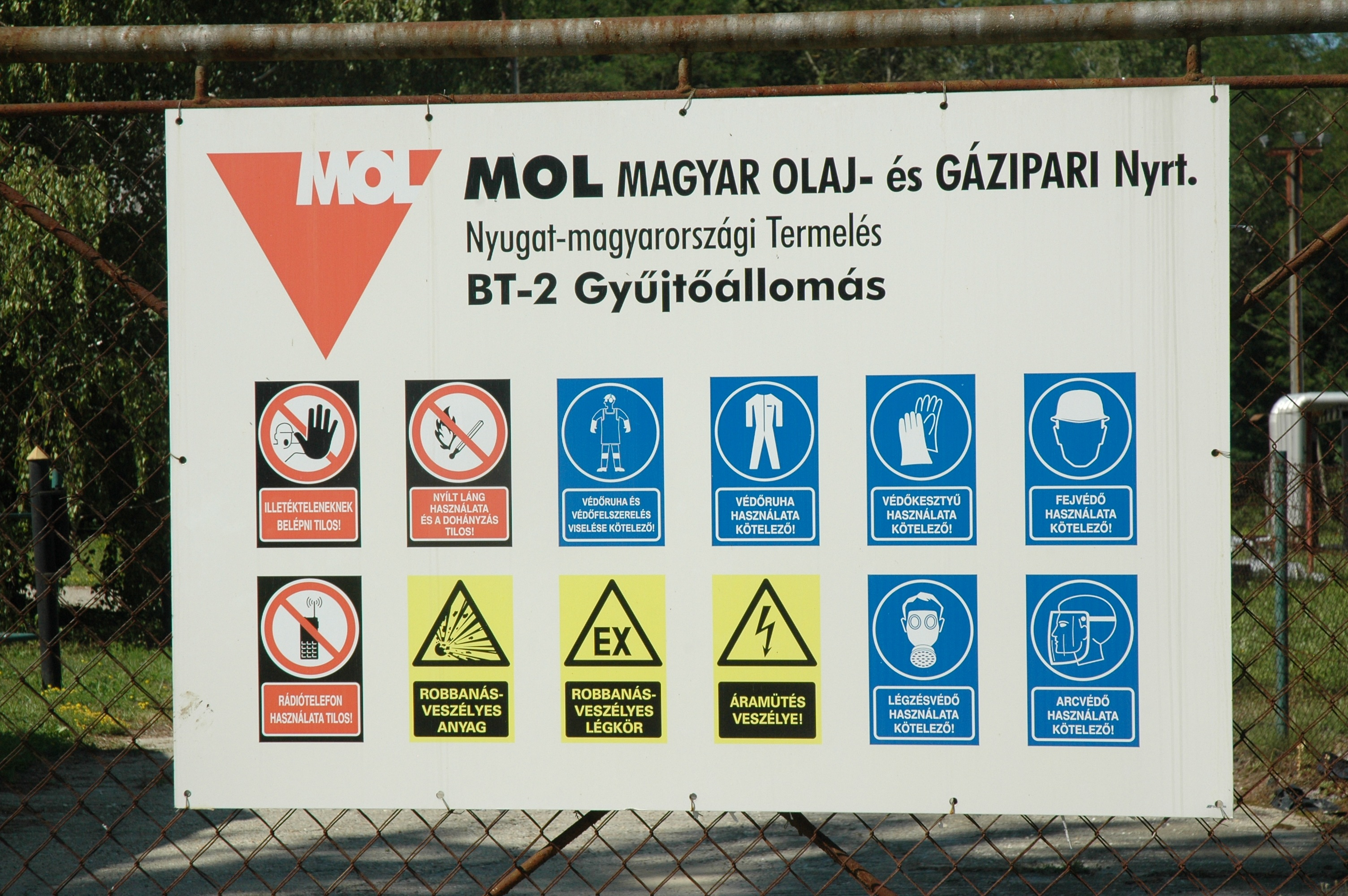 Budafapuszta-2 (BT-2) crude oil tank station in Bázakerettye (Zala County, Hungary)